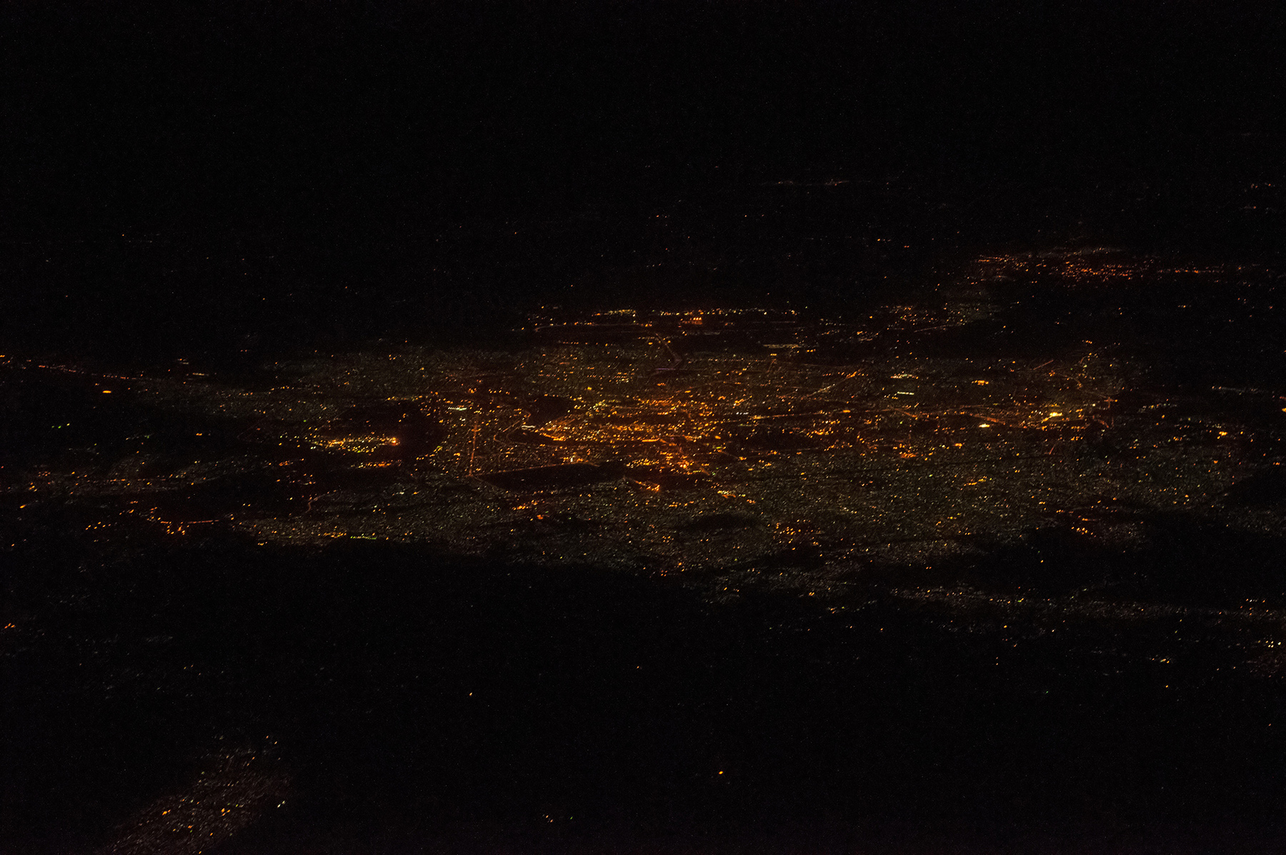 Bagdad in Iraq at night. View from East; height, 35,000 feet; distance, 95 miles